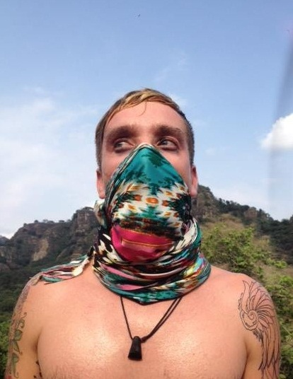 Anonymous Author and Blogger Airen, 2016